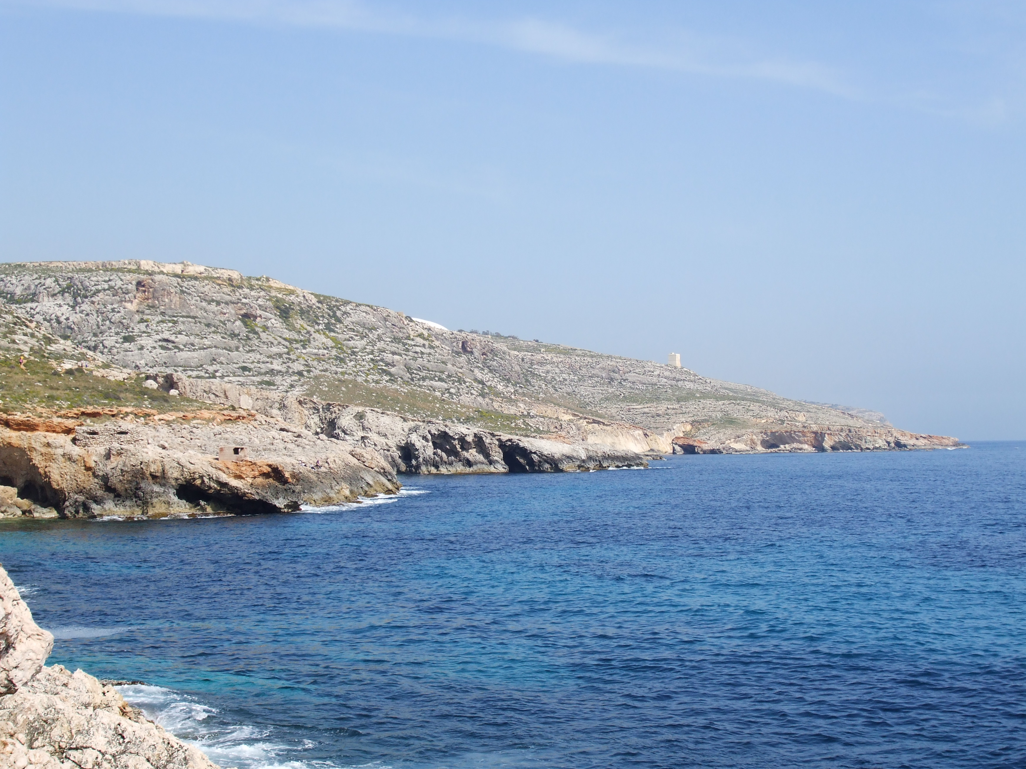 From Lapsi to Wied iz-Zurrieq